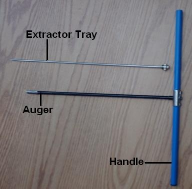 Hand increment borer